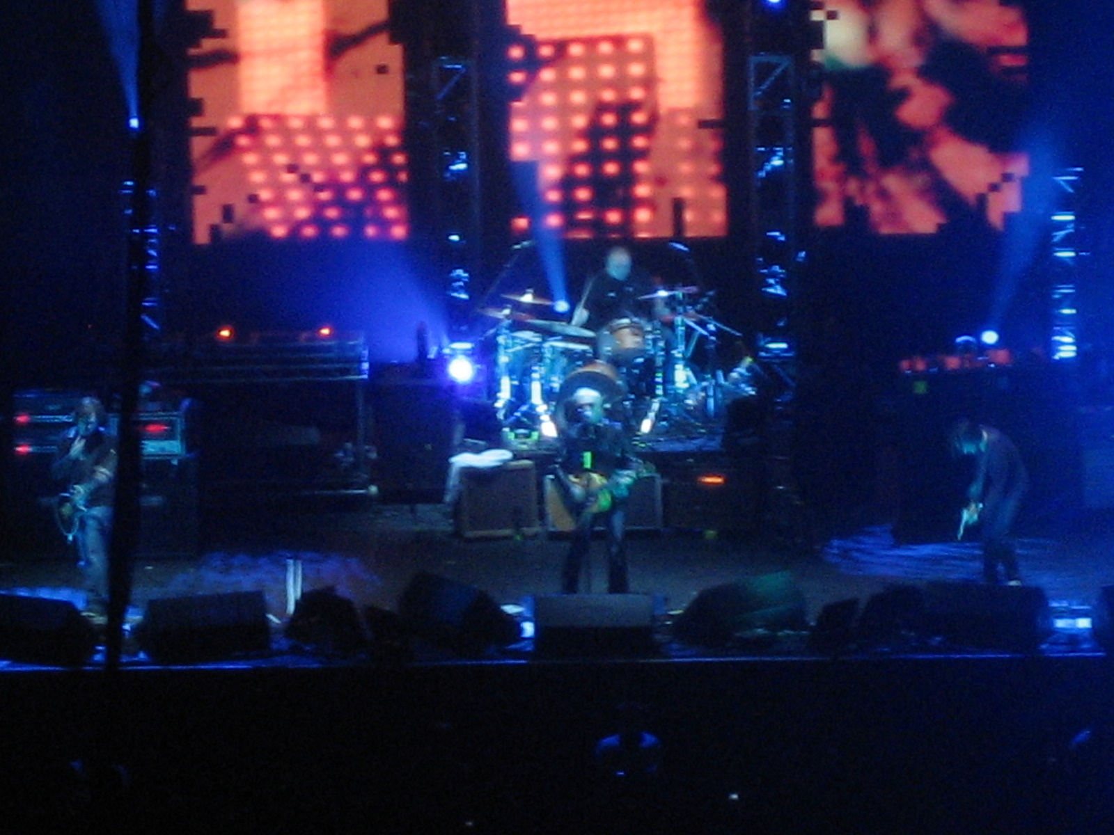 The Verve performing Greenwich, London, England.